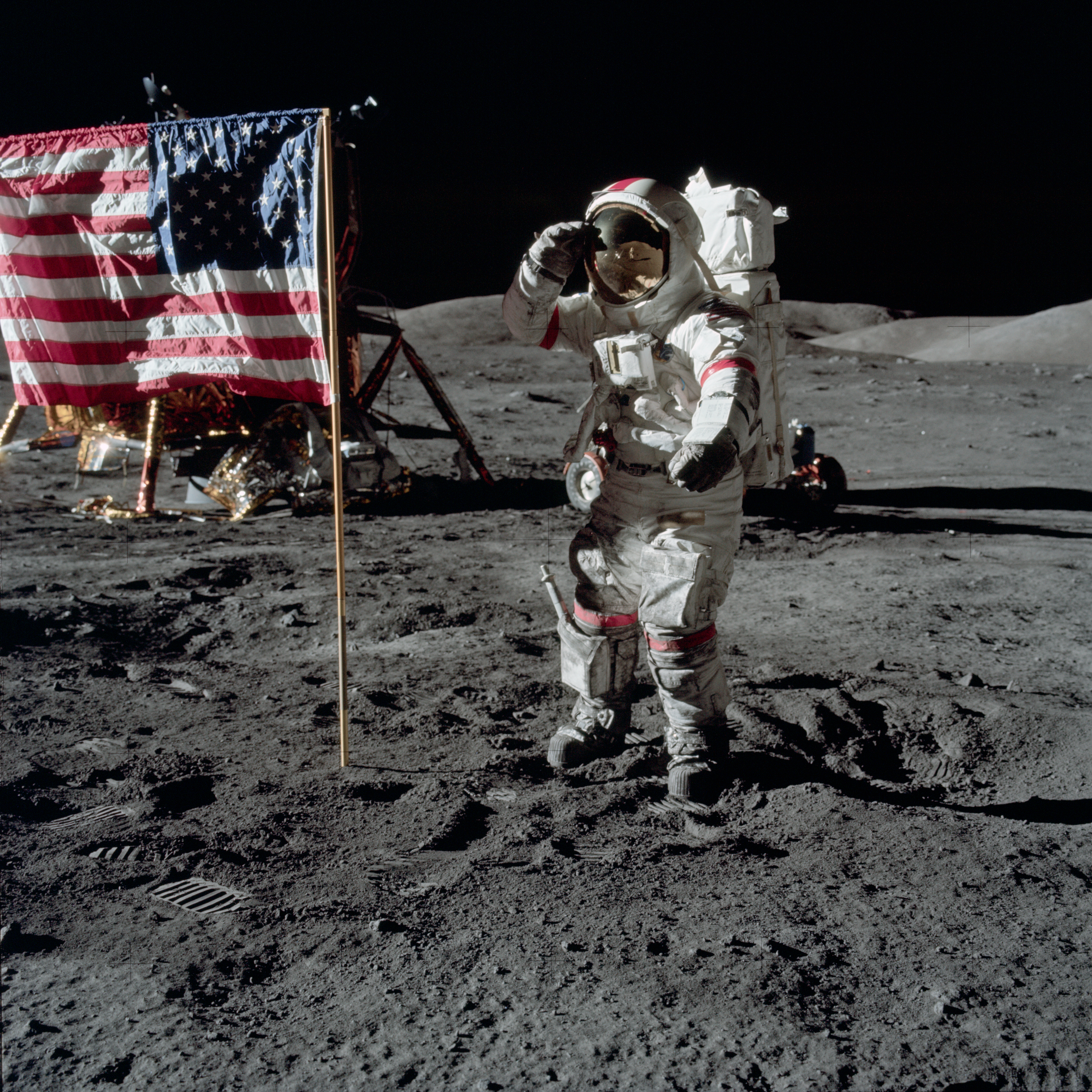 Astronaut Eugene A. Cernan, Apollo 17 commander, salutes the deployed United States flag on the lunar surface during the first extravehicular activity (EVA) of the mission. The Lunar Module (LM) is at left background and the Lunar Roving Vehicle (LRV) also in background, is partially obscured.